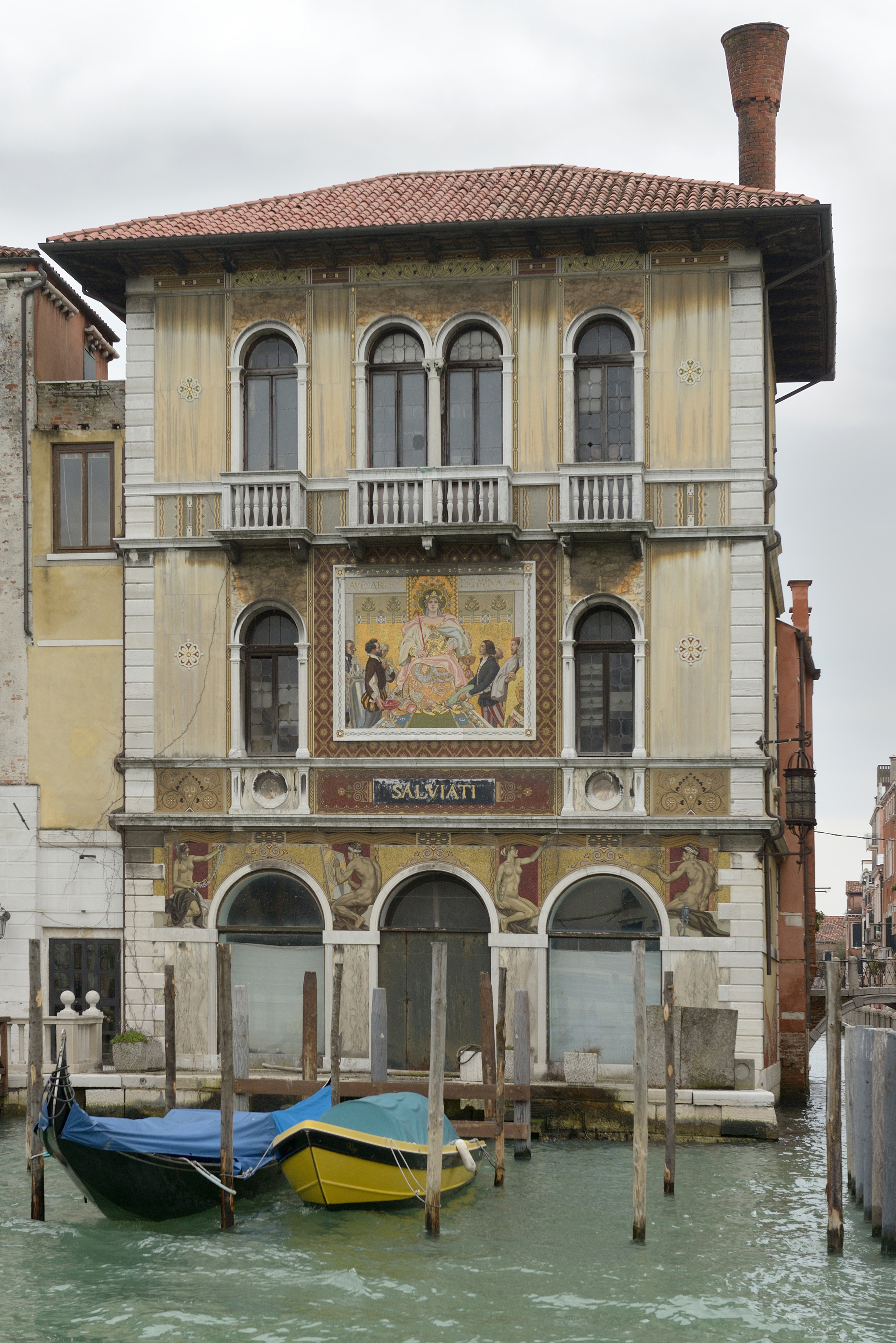 Salviati palace in Venice. Facade on Grand Canal.